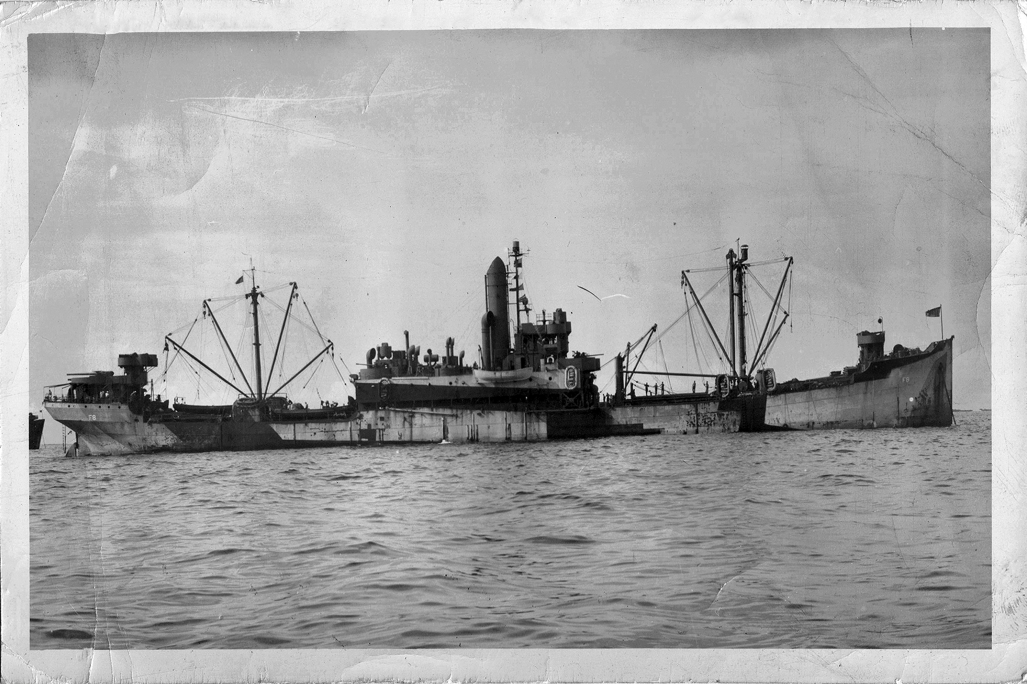 USS Boreas (AF-8)